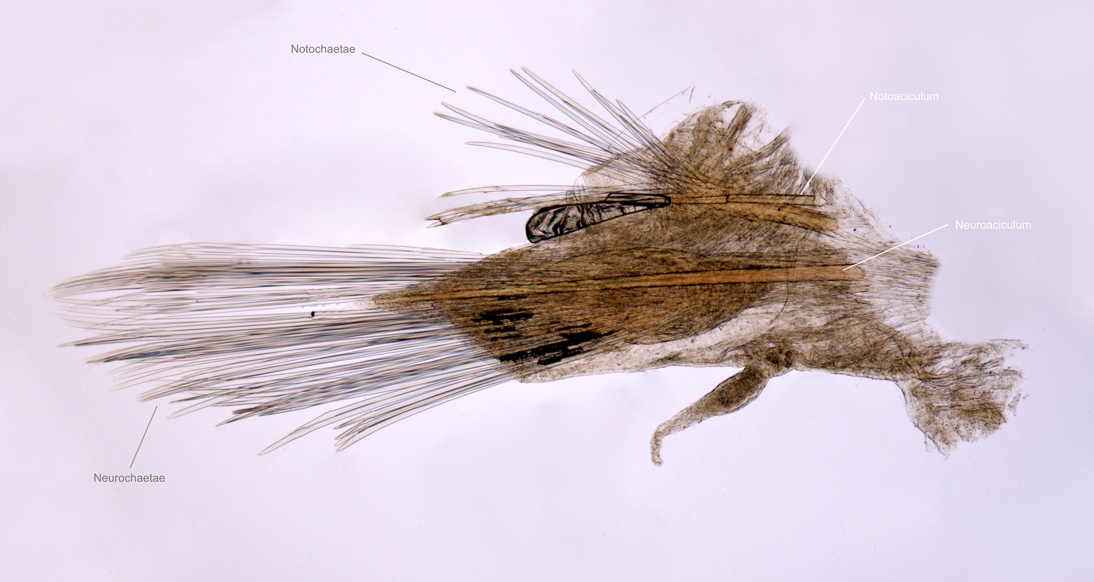 Microscope photograph of a parapodium from a specimen of Arctonoe sp. with chaetae and acicula labelled